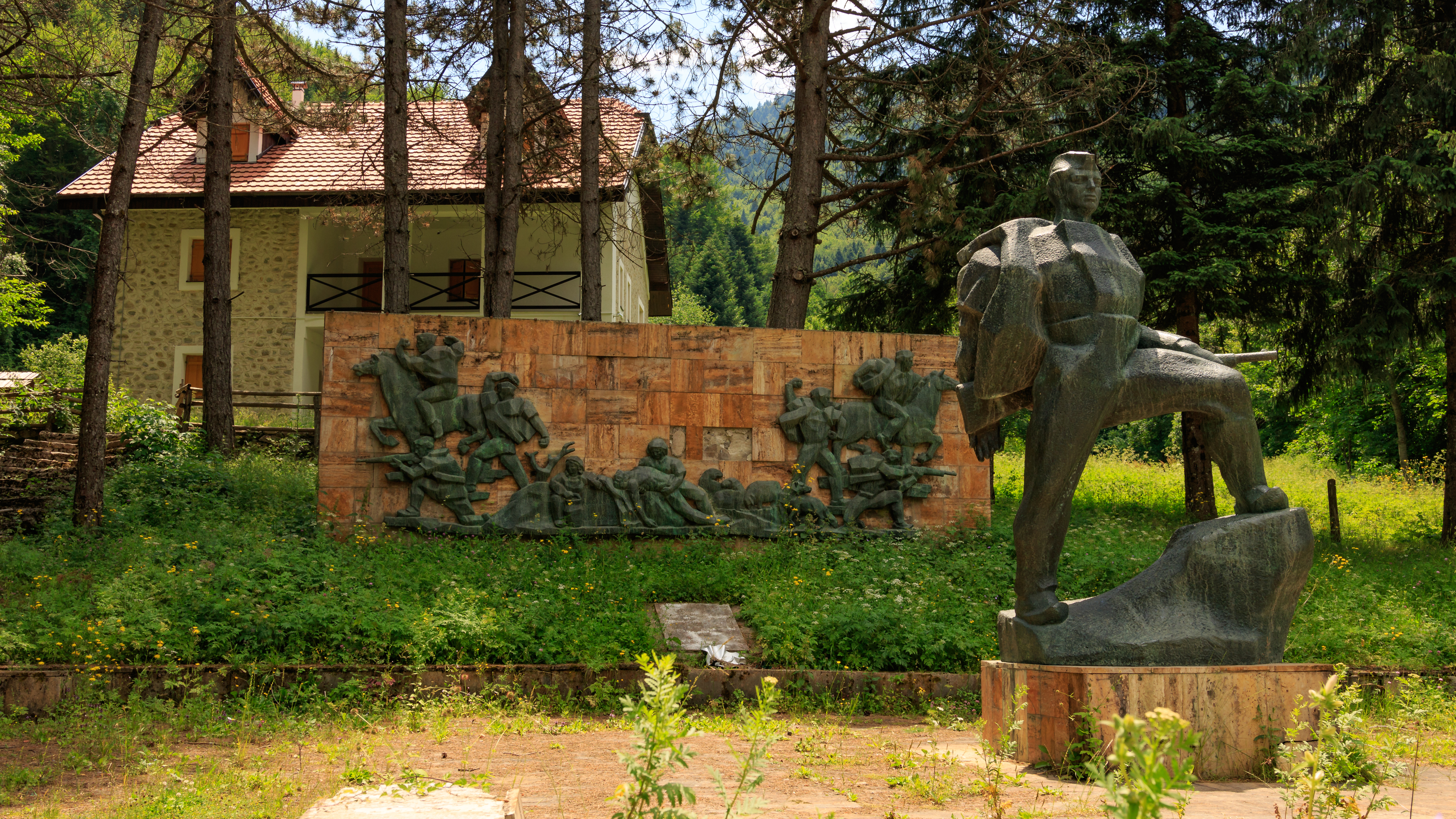 Monument to the National Liberation War of Macedonia in Trnica